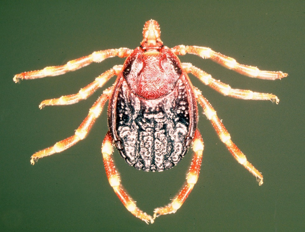 The hard tick, family Ixodidae, Hyalomma rufipes. A female in dorsal view showing the small hard plate of the scutum at the anterior, and banded coloration on legs typical of hyalommas. Specimen from Kenya.